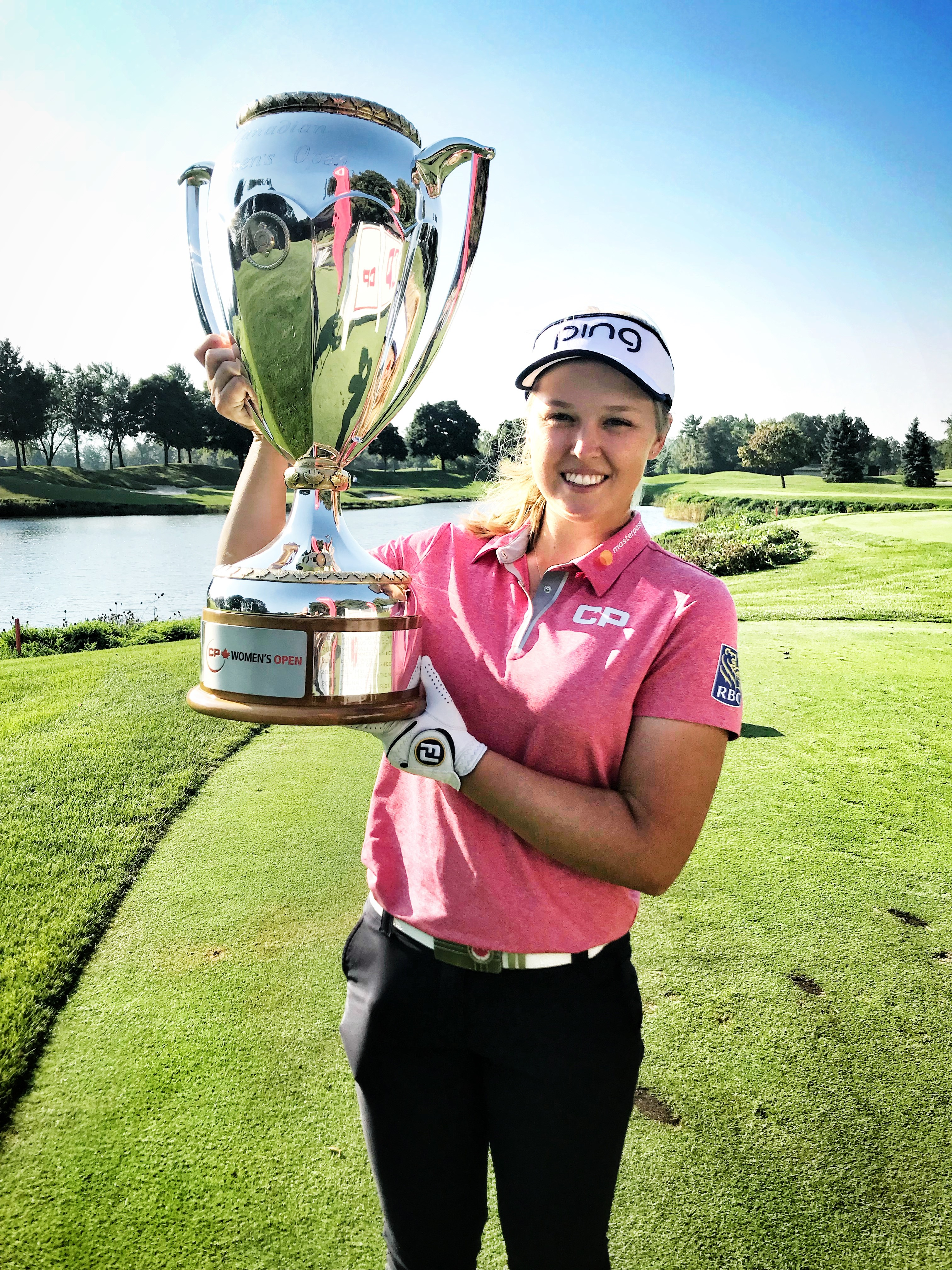 Golfer Brooke Henderson, upon winning the 2018 CP Canadian Women's Open Championship on 26 August 2018